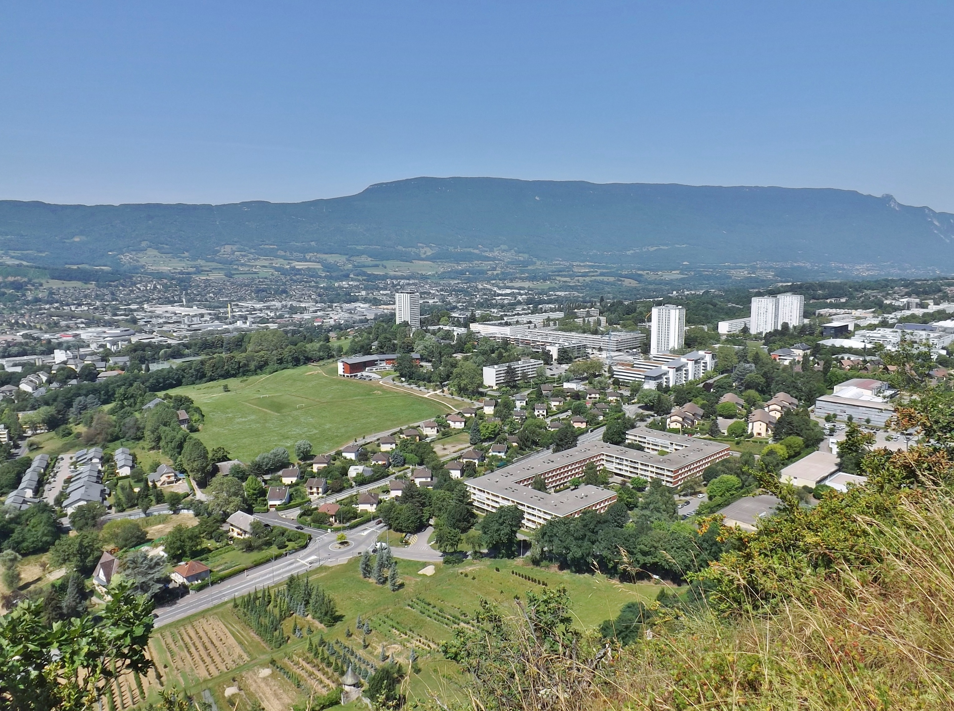 Panoramic sight of the heights of Chambéry from the hill of Les Monts, in Savoie, France.